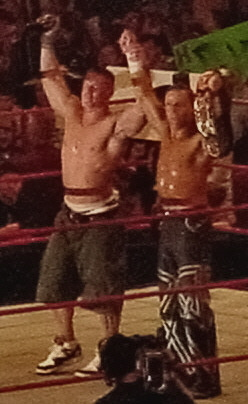 WWE Champion John Cena and Shawn Michaels - tag champs